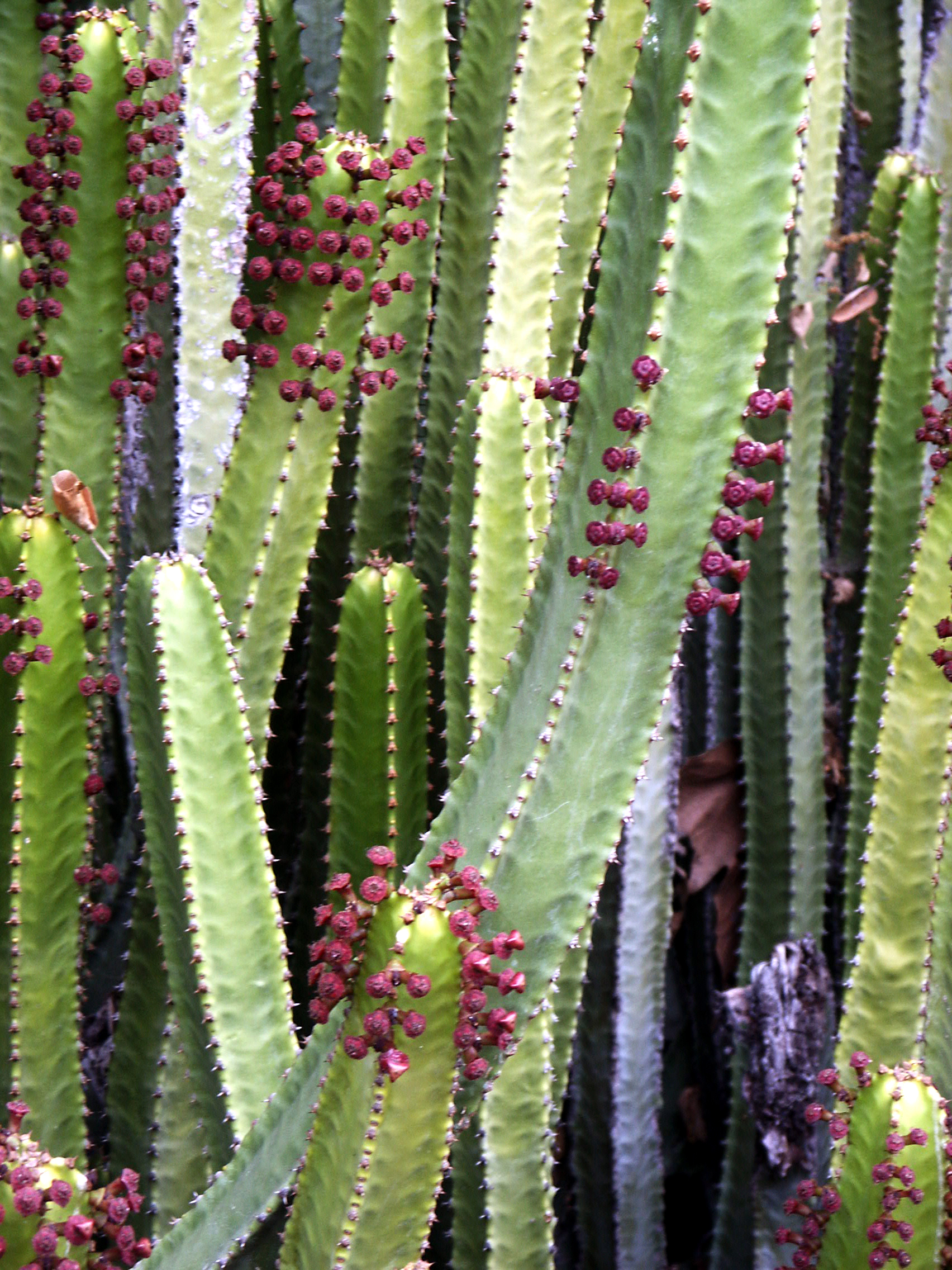 Euphorbia canariensis - Huntington Library Desert Garden May 2009